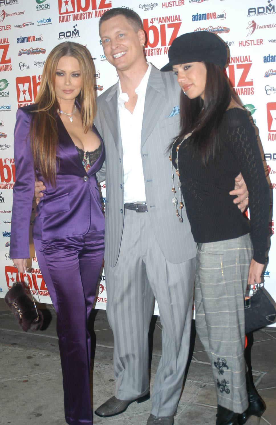 Jenna Jameson, Jay Grdina, McKenzie Lee at the XBiz Awards, November 17, 2005